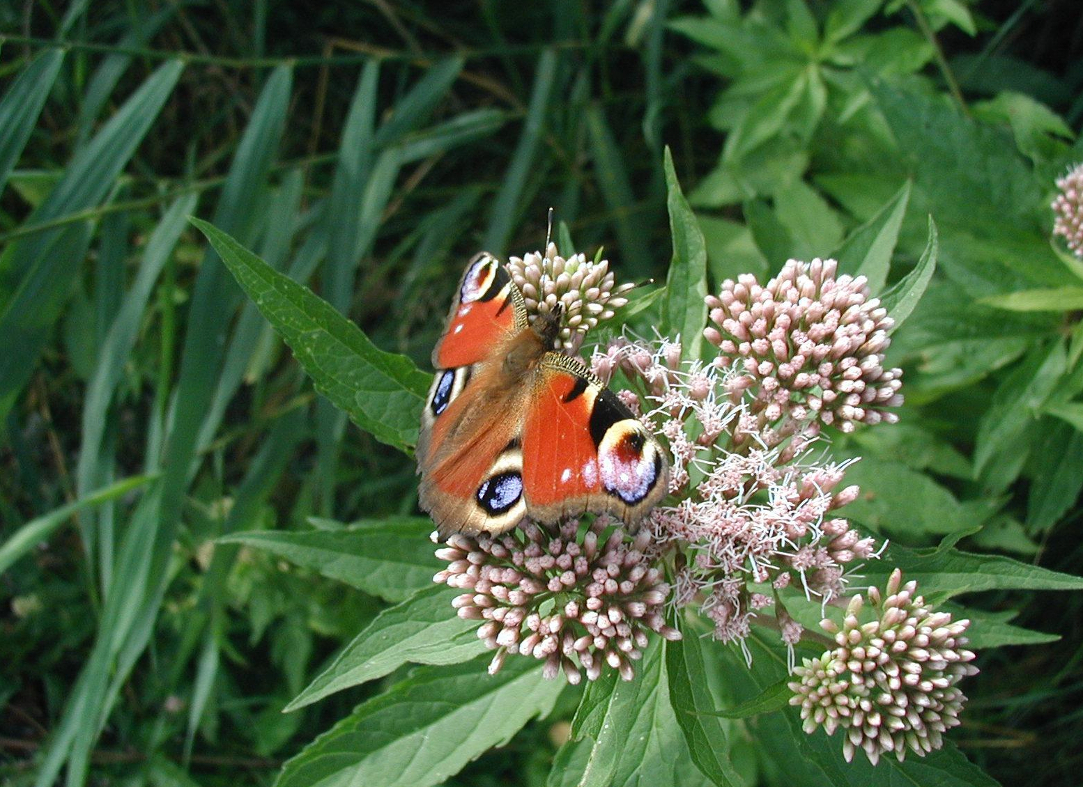 August: The European Peacock butterfly (Inachis io), more commonly known as the Peacock butterfly on a Eupatorium.